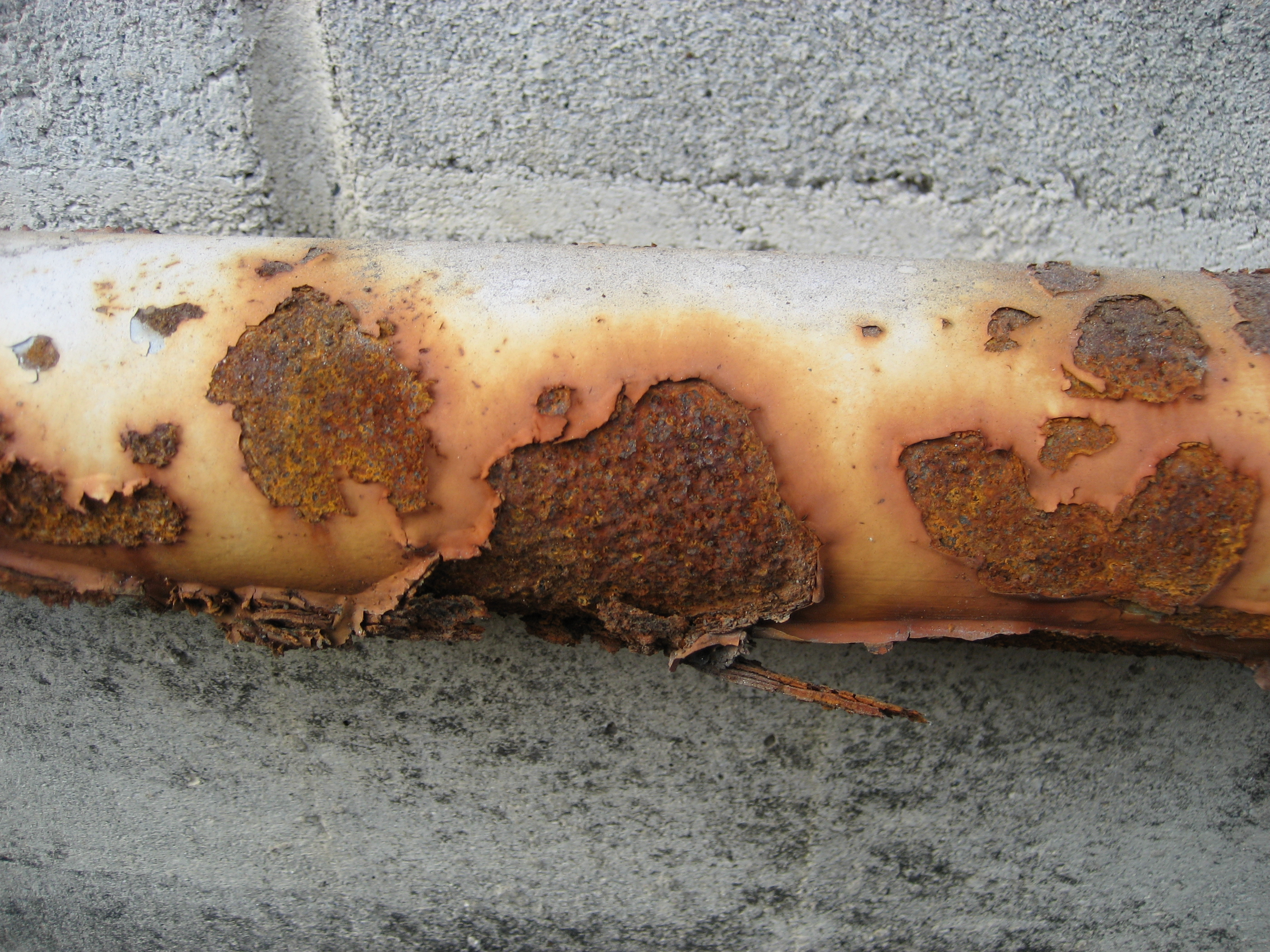 Pipe with corrosion under coating